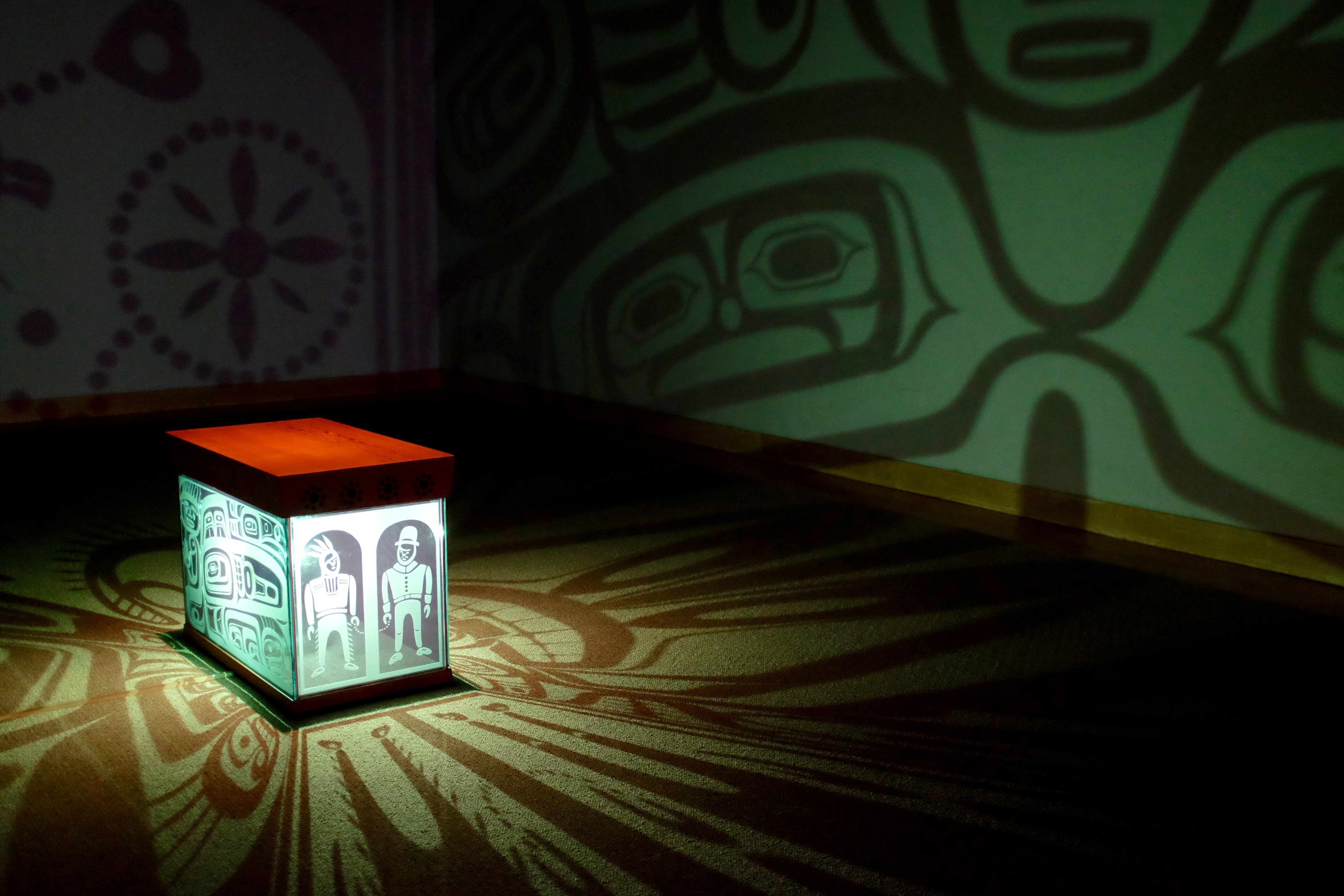 Marianne Nicolson's The Harbinger of Catastrophe (2017), part of the Transformer exhibit at National Museum of the American Indian in New York City. Glass, wood and halogen-bulb mechanism.